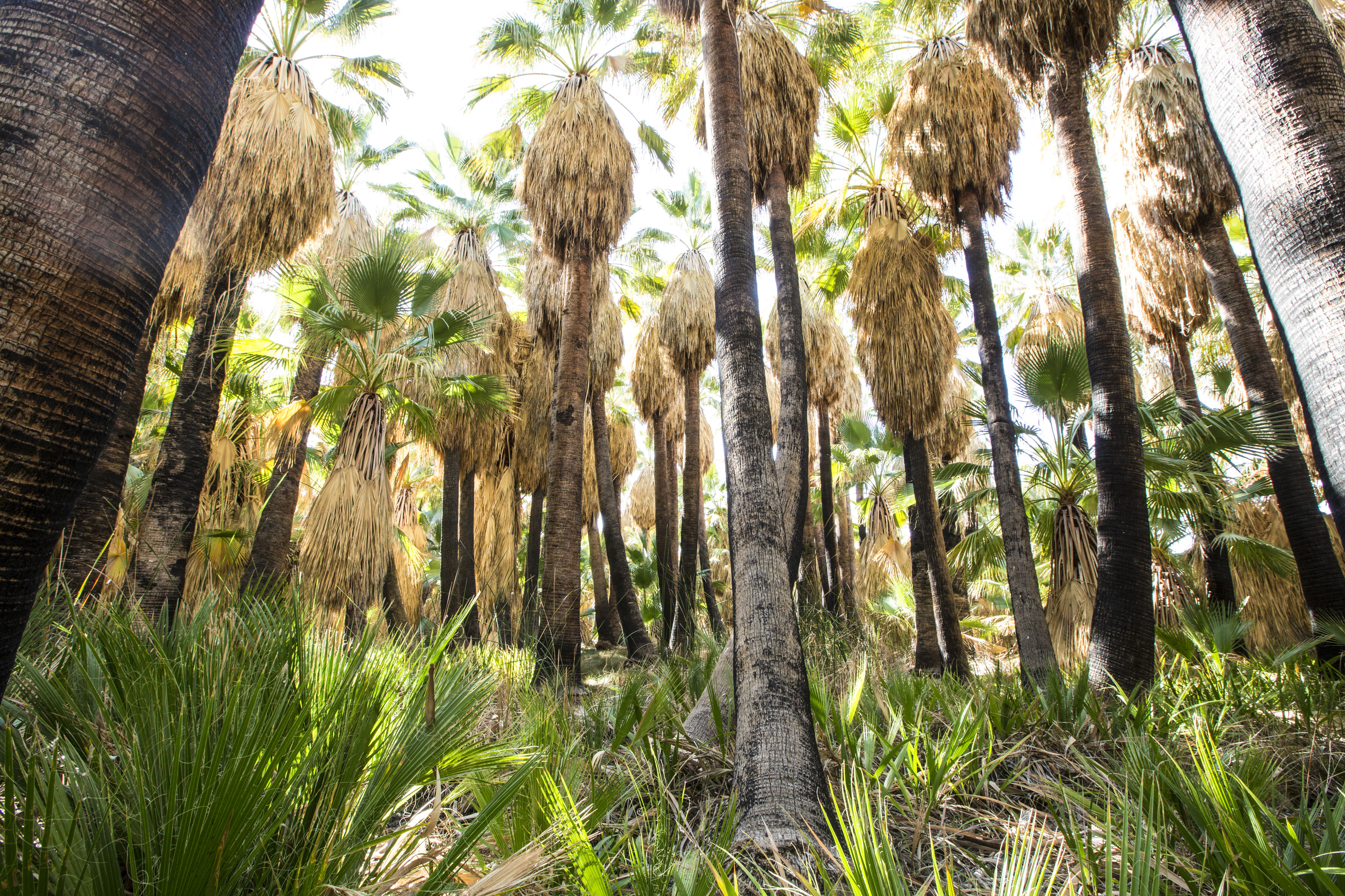 Dos Palmas Preserve ACEC, California - established for its palm oasis and wetlands. Photo Bob Wick, BLM